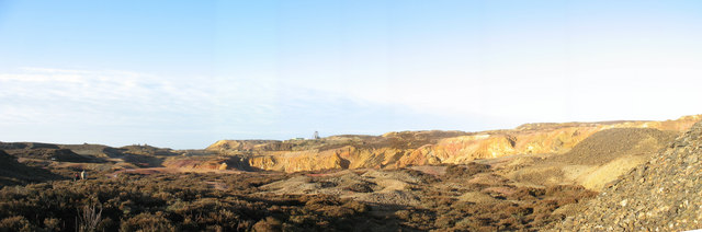 The western opencast site on Mynydd Parys